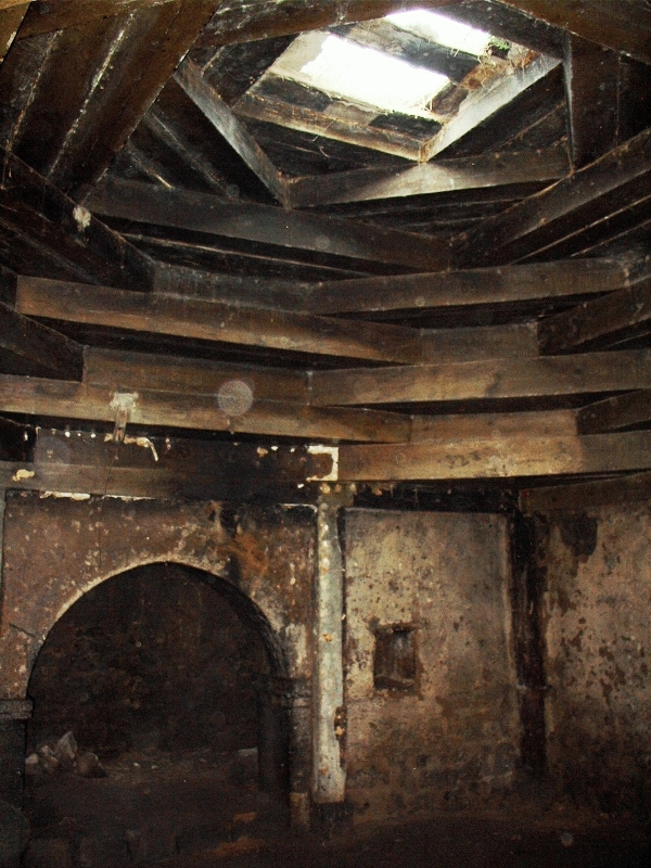 Javakhetian living room. Village Saro